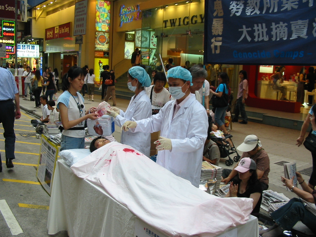 "Live organ harvesting" in China enacted by practitioners of Falun Gong in Hong Kong. Photo taken by Wrightbus.